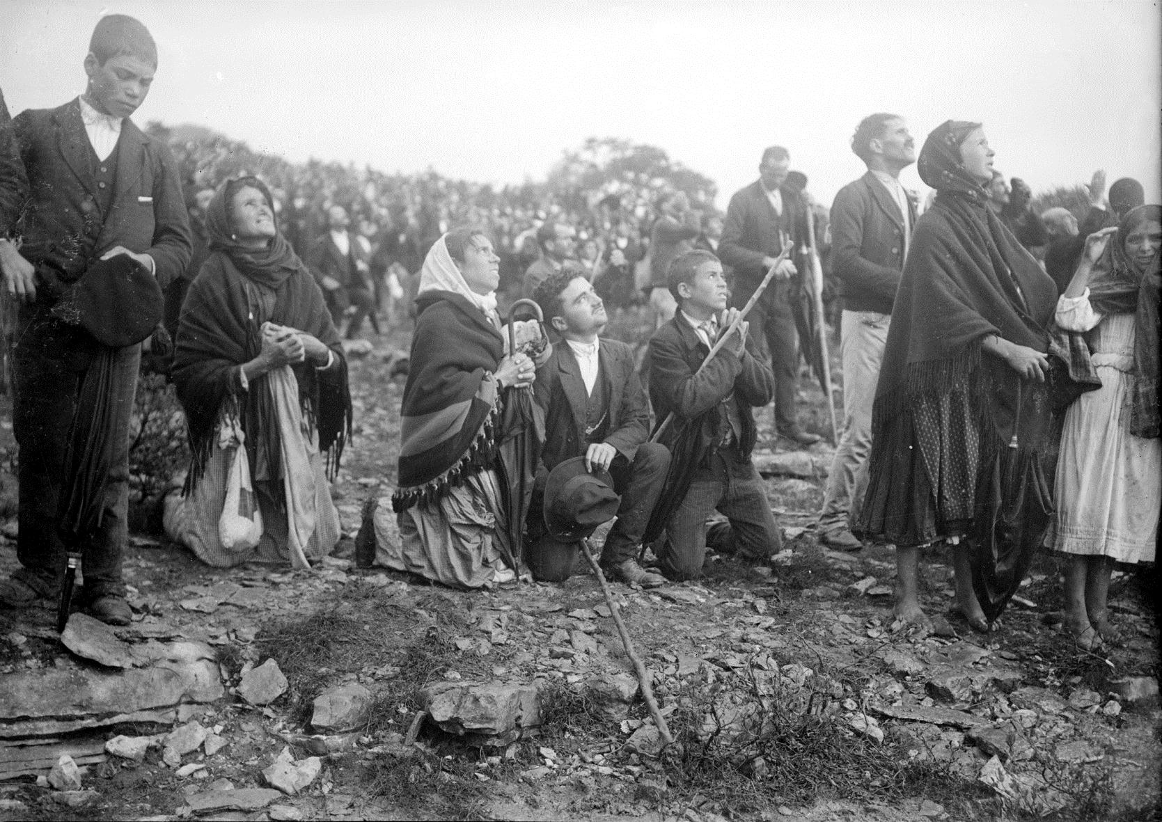 The crowd looking at "the Miracle of the Sun", occurred during the Our Lady of Fatima apparitions.